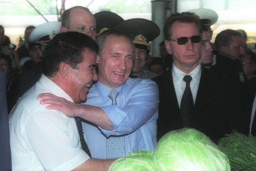 ASHGABAT. President Putin and Turkmen President Saparmurat Niyazov at a city market.